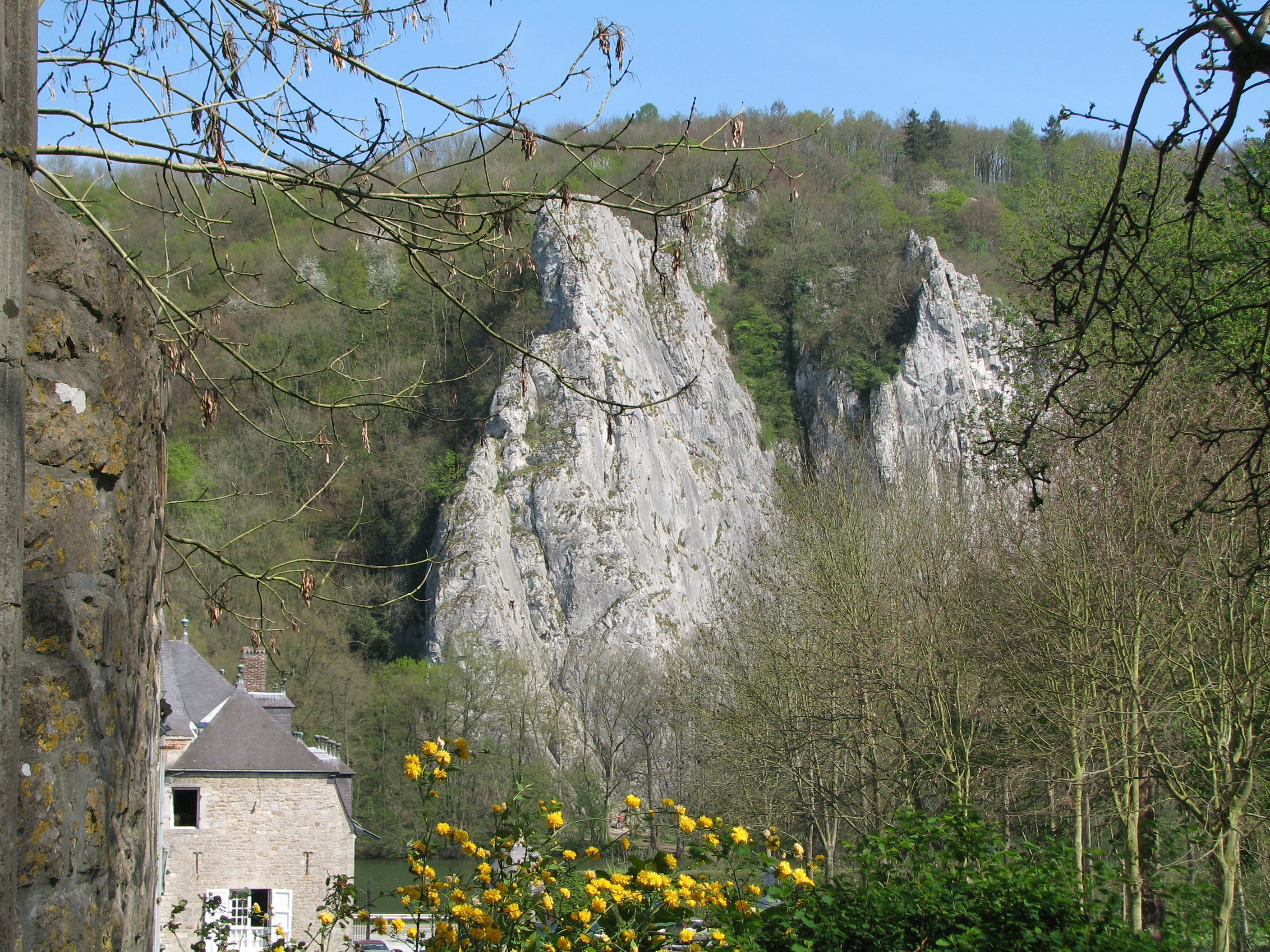 Rots Merinos Freyr